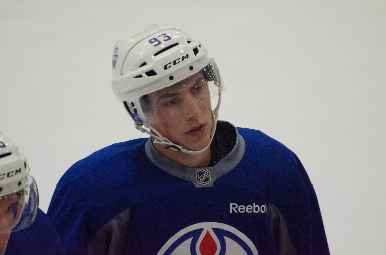 Must credit Connor Mah if used elsewhere.